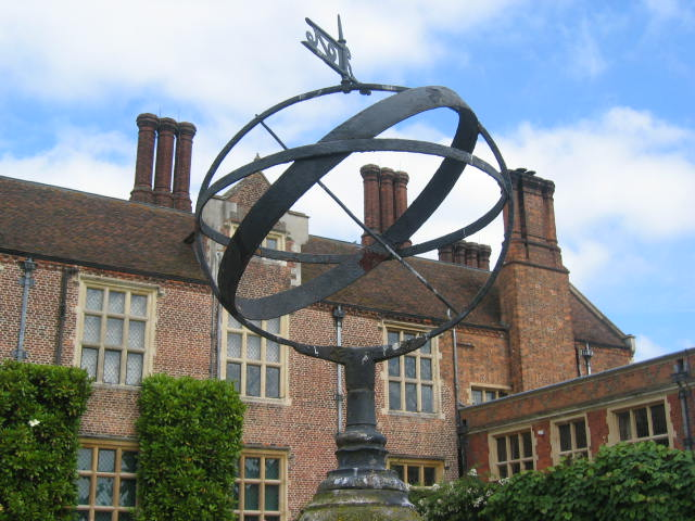 North Mymms House, June 2005